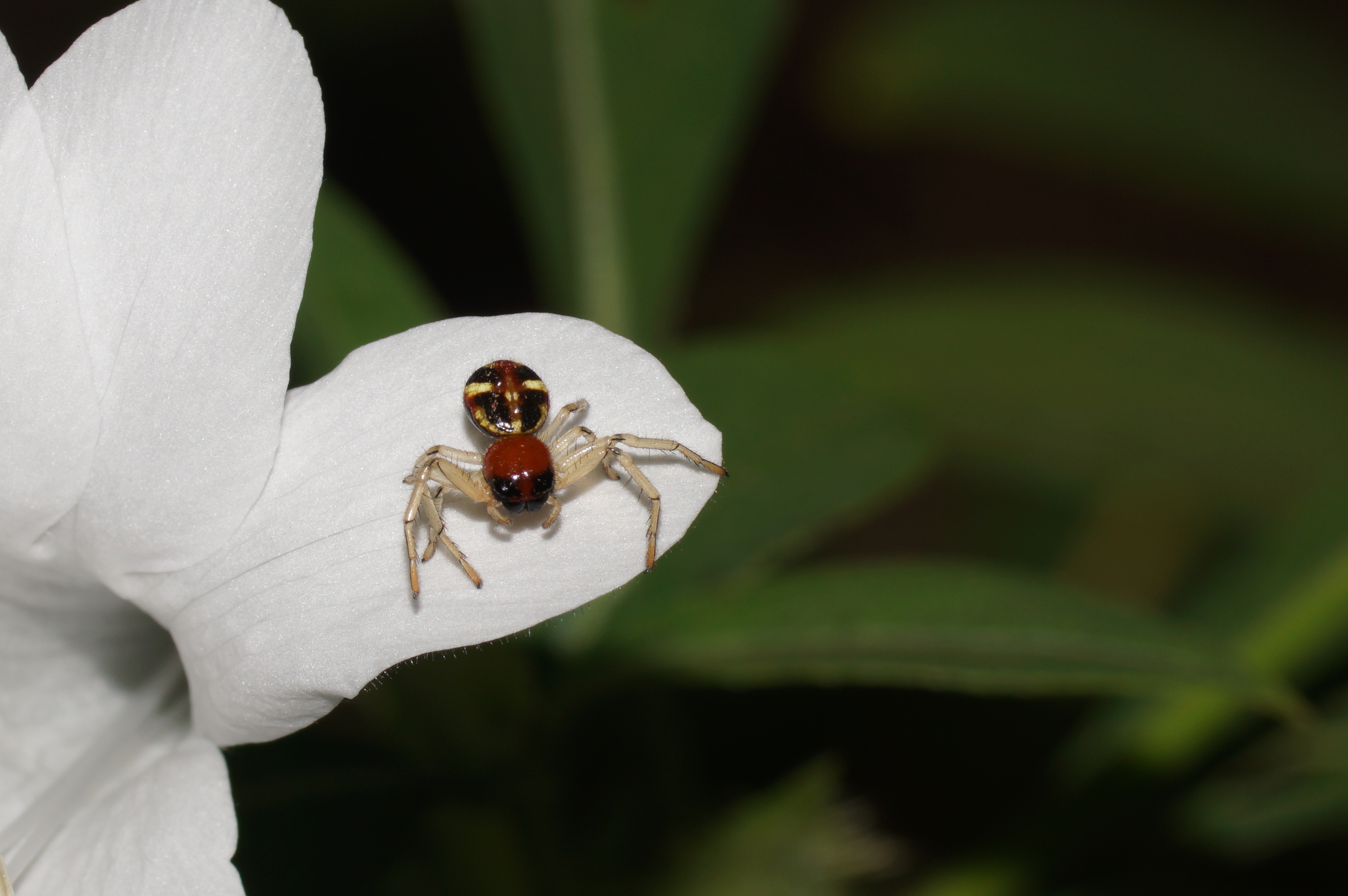 Camaricus formosus sitting on Barleria cristata flower